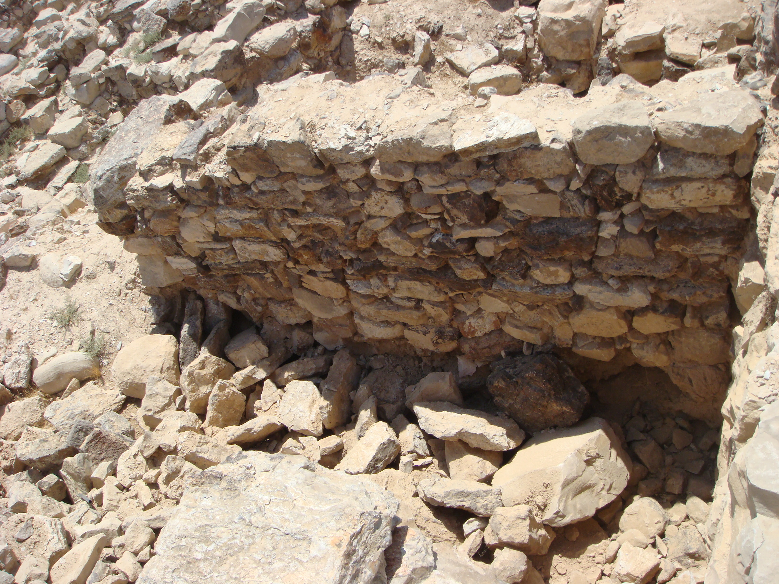 Hurvat Uzza, overlooking Kina River at Arad Valley, Israel.